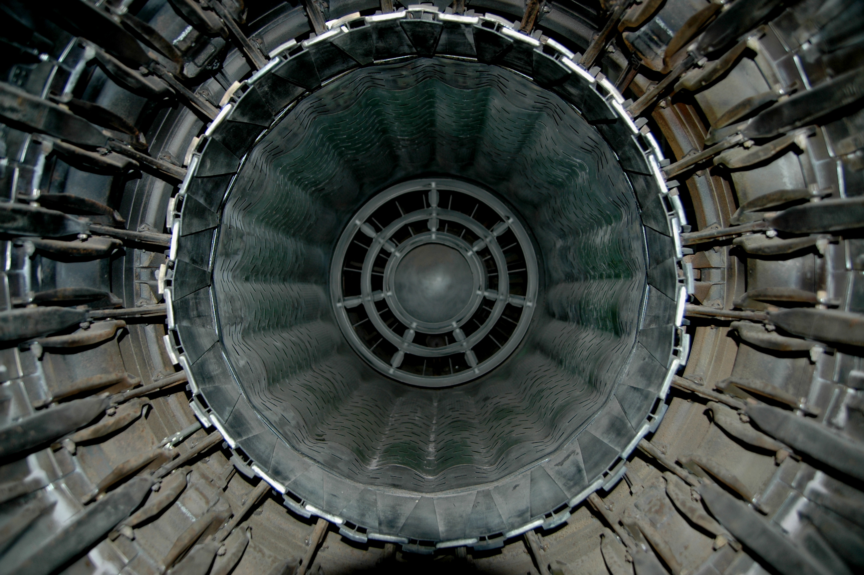 afterburner section of a General Electric J79 turbojet engine